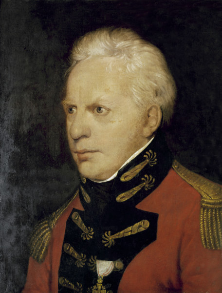 Print of Georg Nicolaus Nissen after painting by Jagemann